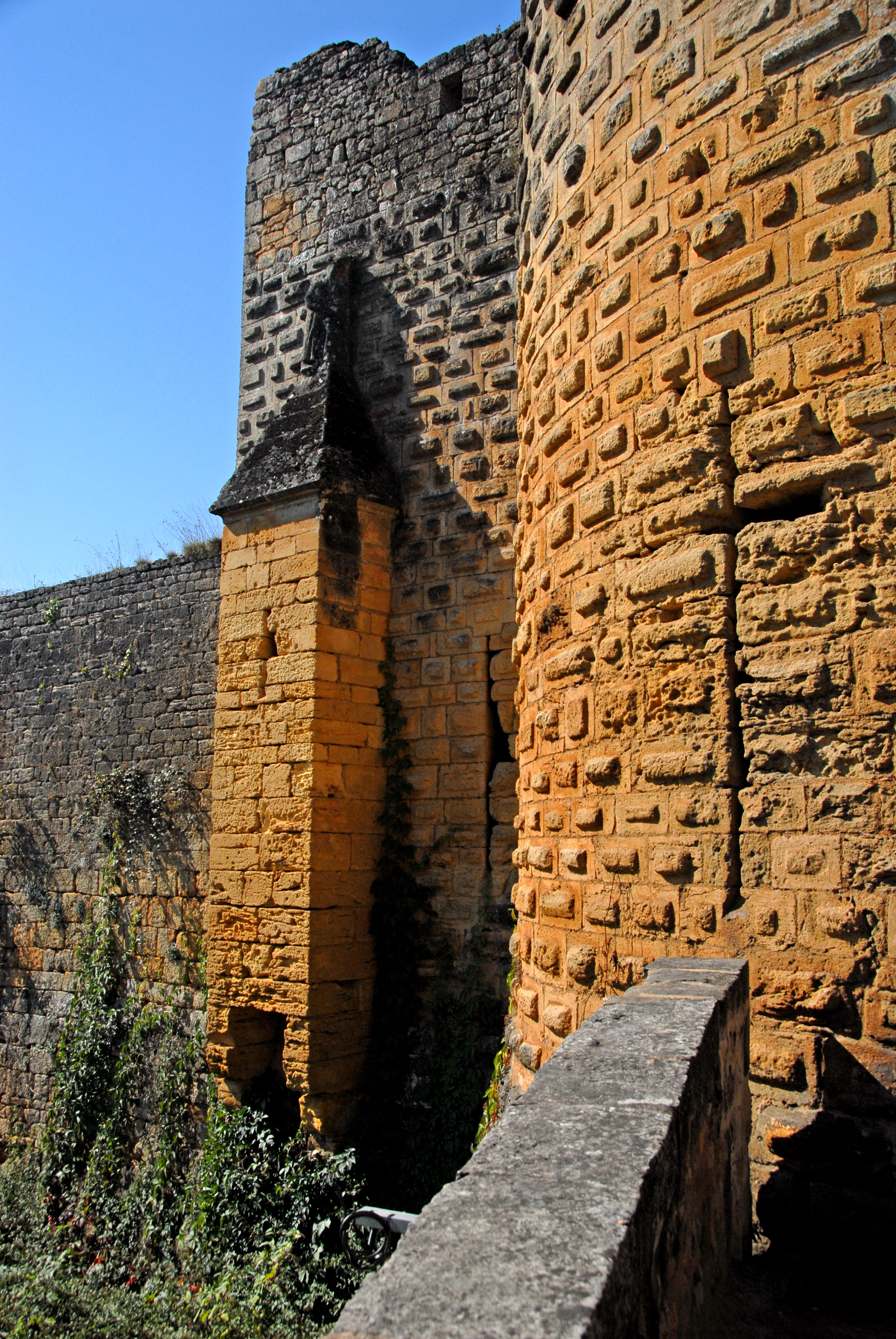 Domme, Porte des Tours